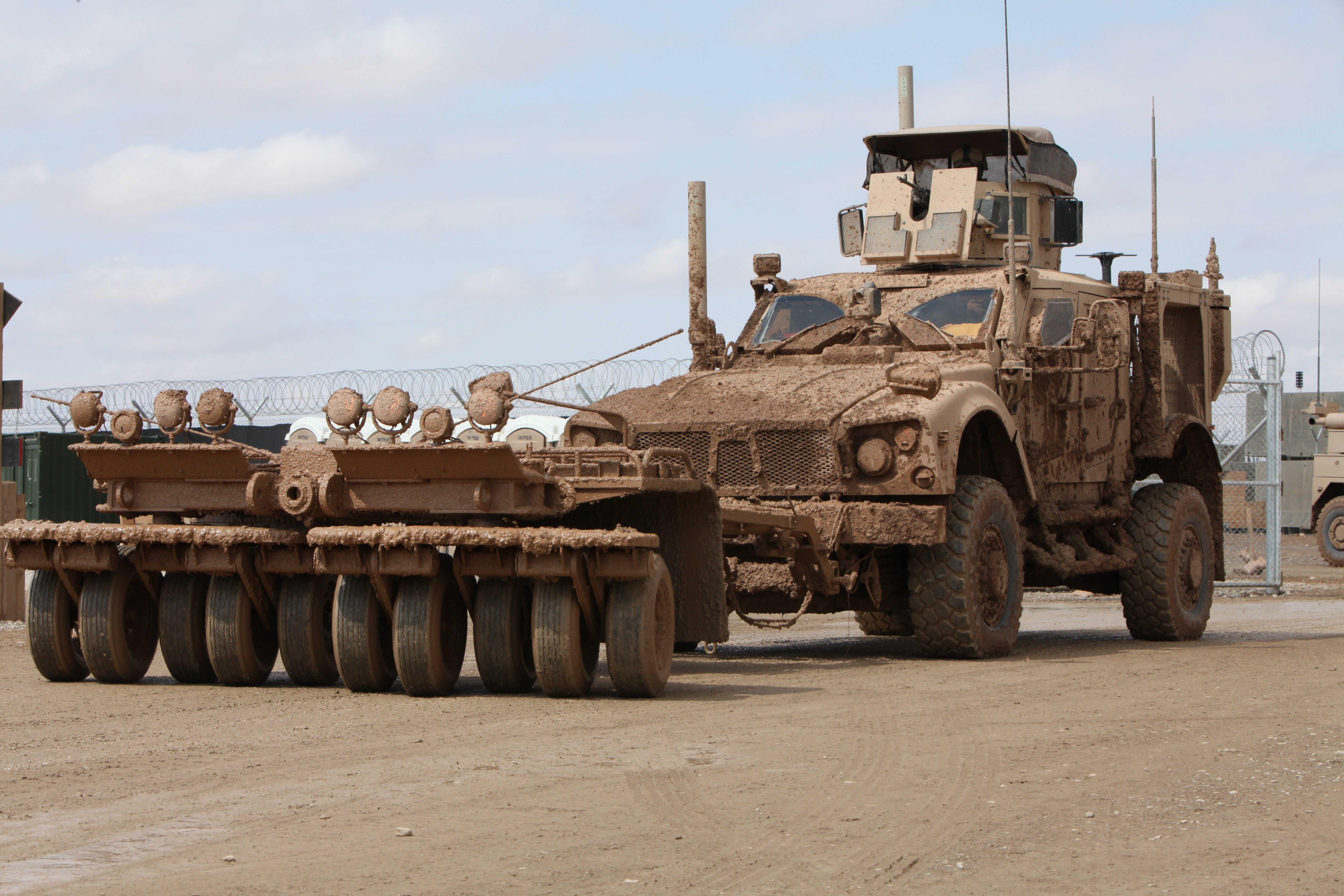 More than 50 Marines with Marine Wing Support Squadron 373 returned to Camp Leatherneck, Afghanistan, after completing an independent convoy to Camp Dwyer, Afghanistan, March 5. “We are the first wing support squadron to execute and complete an independent convoy,” said Sgt. Maj. Michael Mack, the squadron sergeant major. 2nd Marine Aircraft Wing Public Affairs Photo by Lance Cpl. Samantha H. Arrington Date Taken:03.05.2011 Location:CAMP LEATHERNECK, AF Related Photos